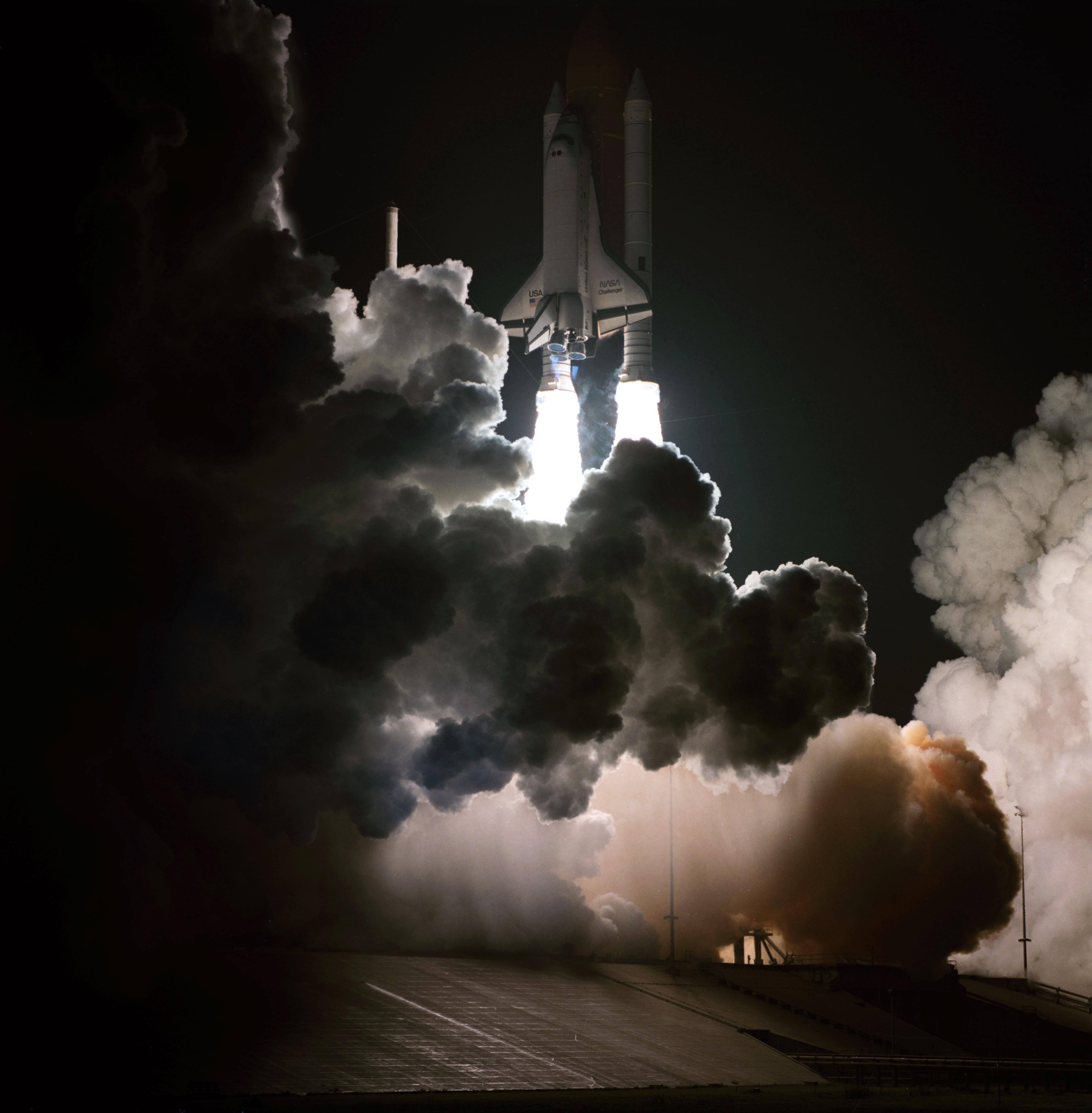 STS-8 launch